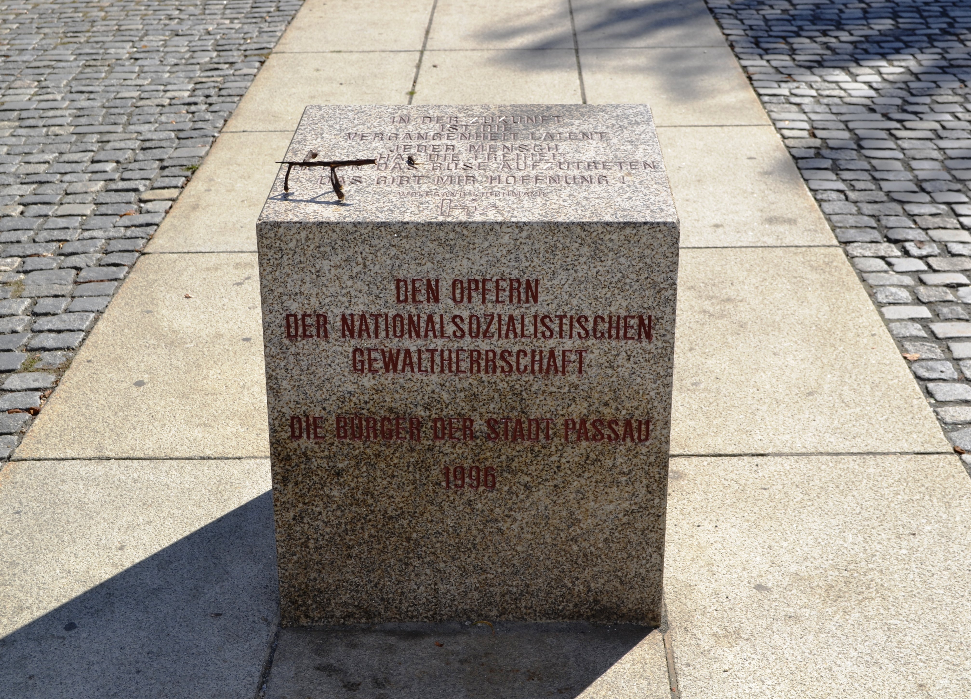 The Memorial for the Victims of National Socialism in Passau.